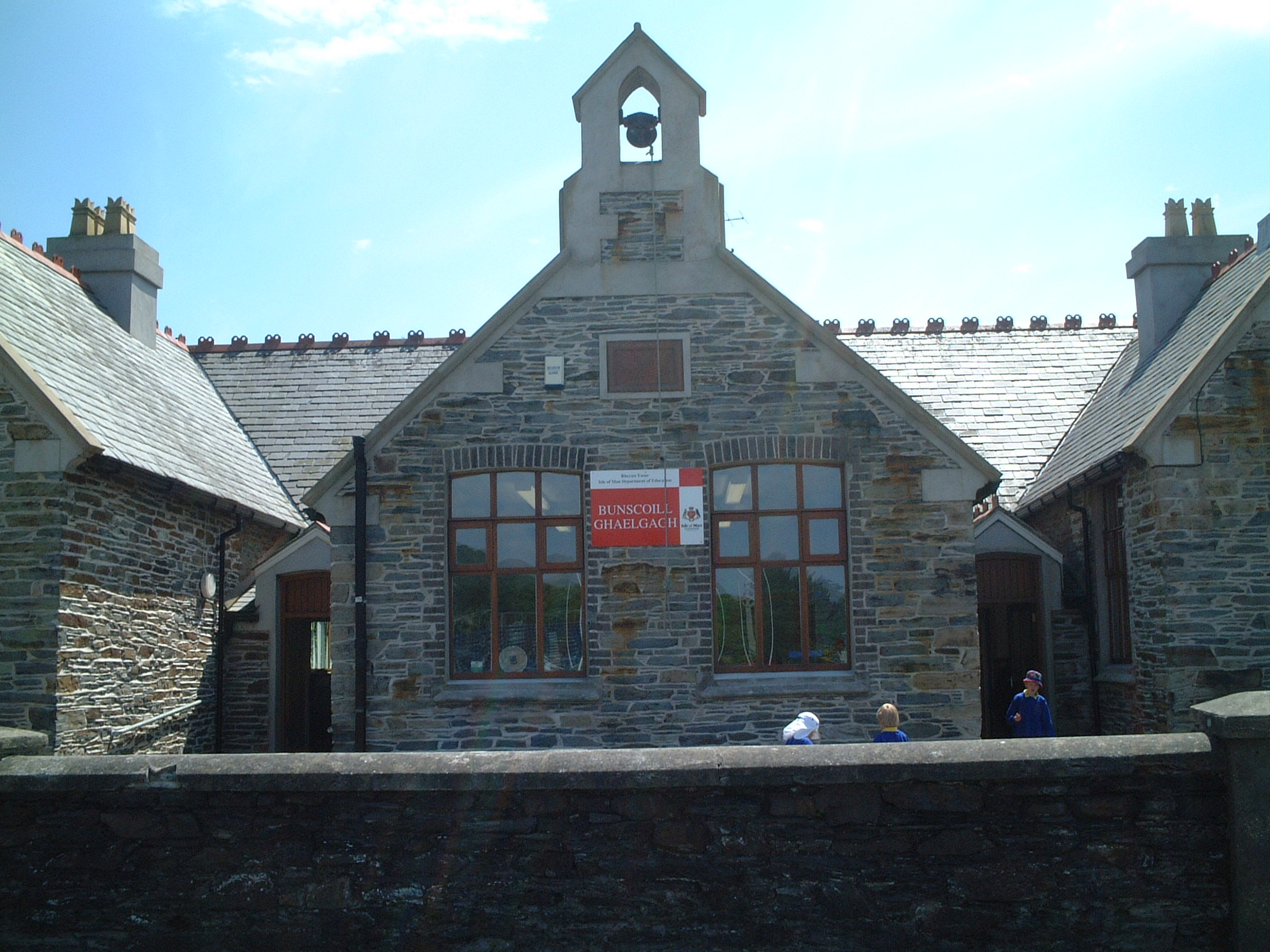 Manx medium primary school in St Johns, IoM Gaelg: Bunscoill Ghaelgagh